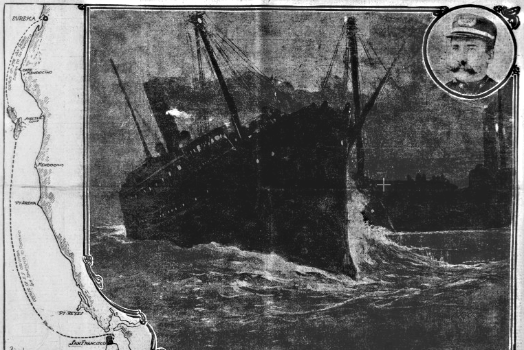 An illustration from the San Francisco Call showing the SS Columbia sinking after colliding with the steam schooner San Pedro, which is displayed incorrectly off Columbia's port side.